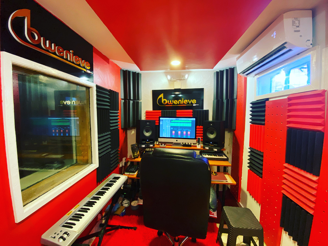 Bwenieve Studio control room